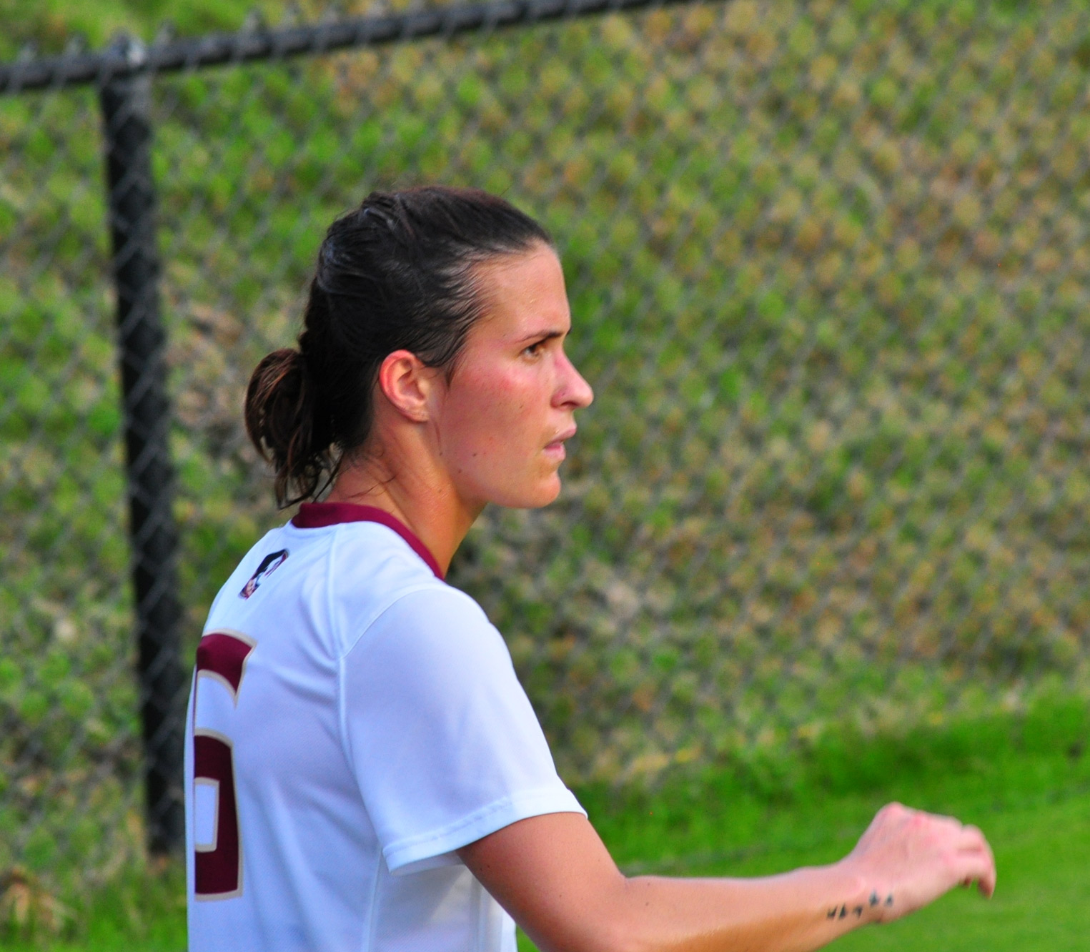 Carson Picket With Corner Kick